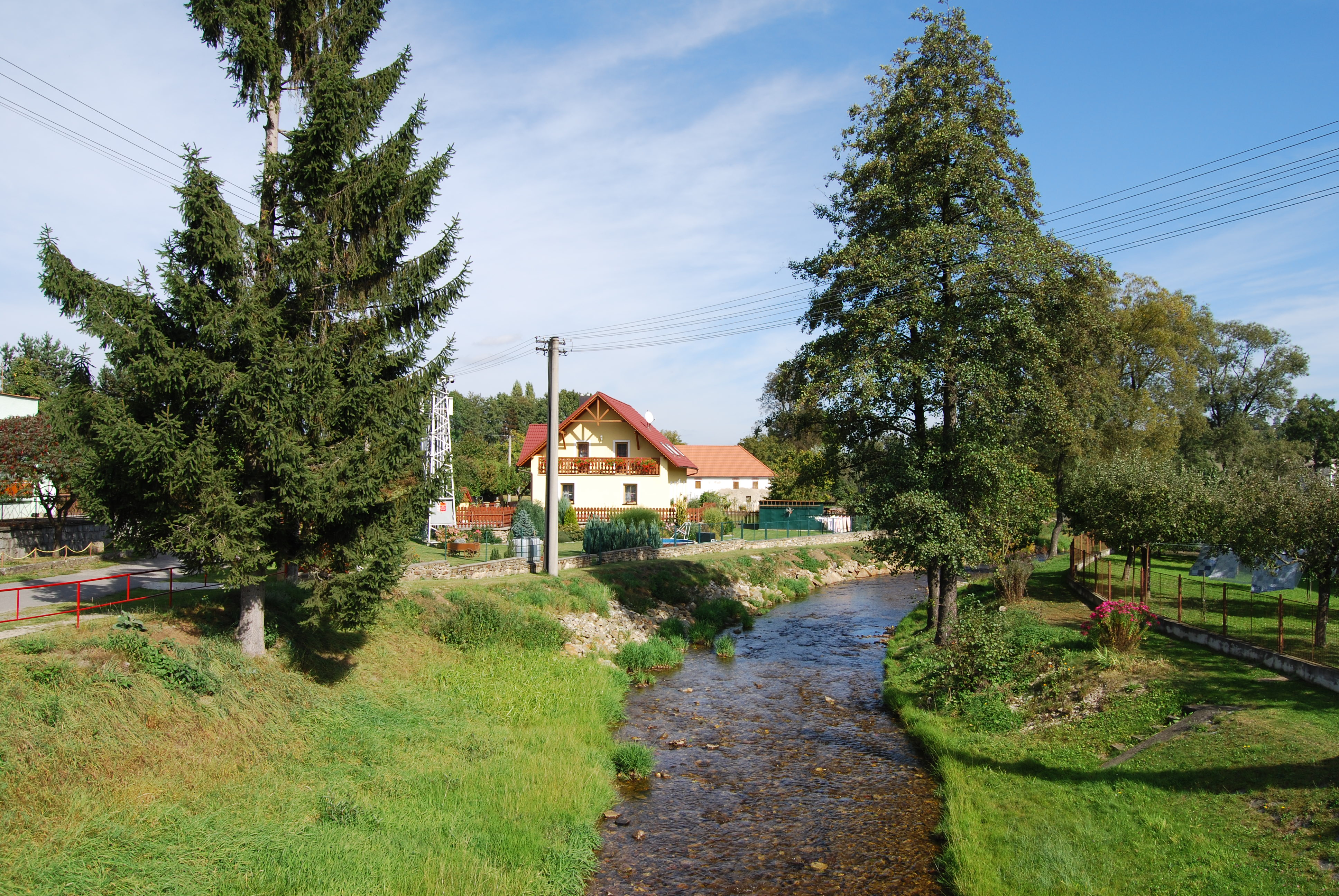 Vitějovice village in Prachatice District, Czech Republic.